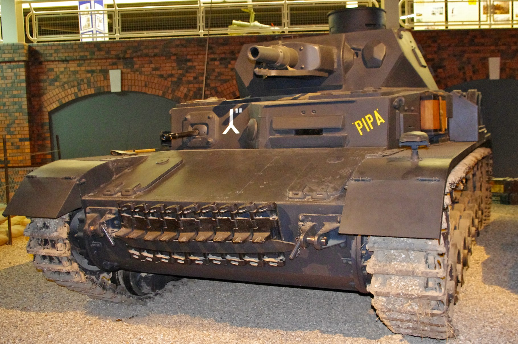 Imperial War Museum, Duxford